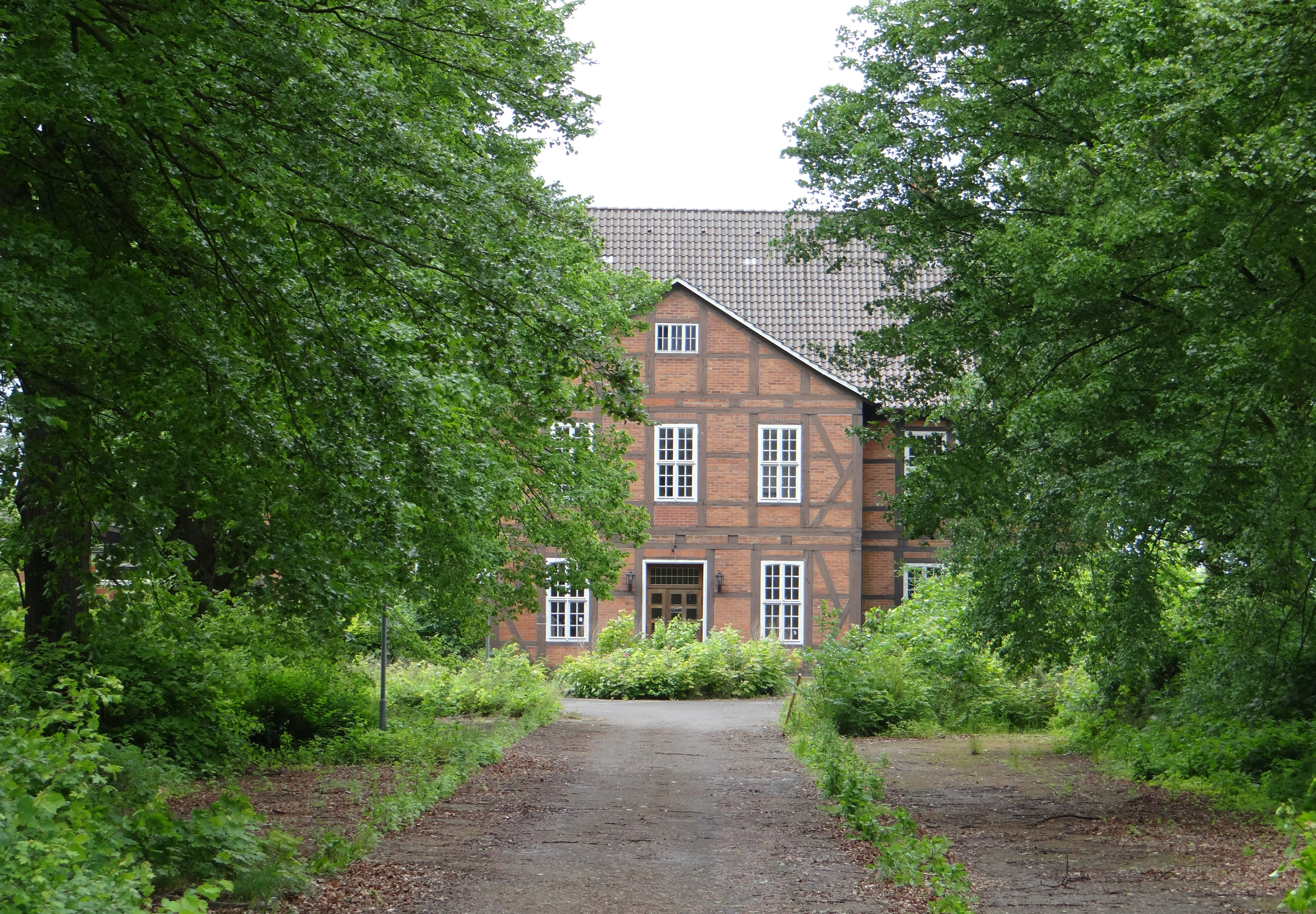 Heisenhof, Building near Verden, Germany.